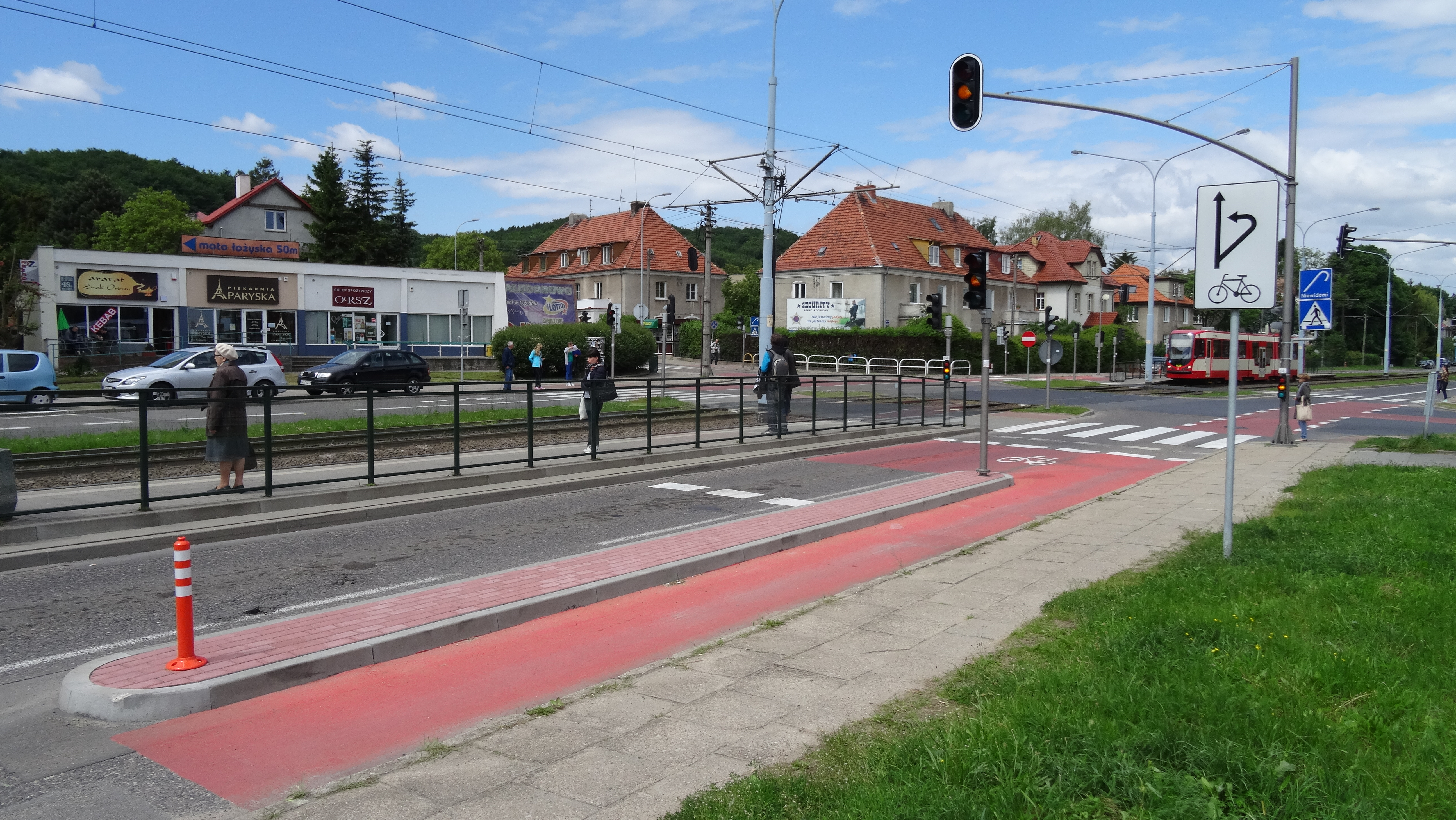 Gdansk Poland Wita Stwosza Bazynskiego bicycle path, nearby Gdansk University